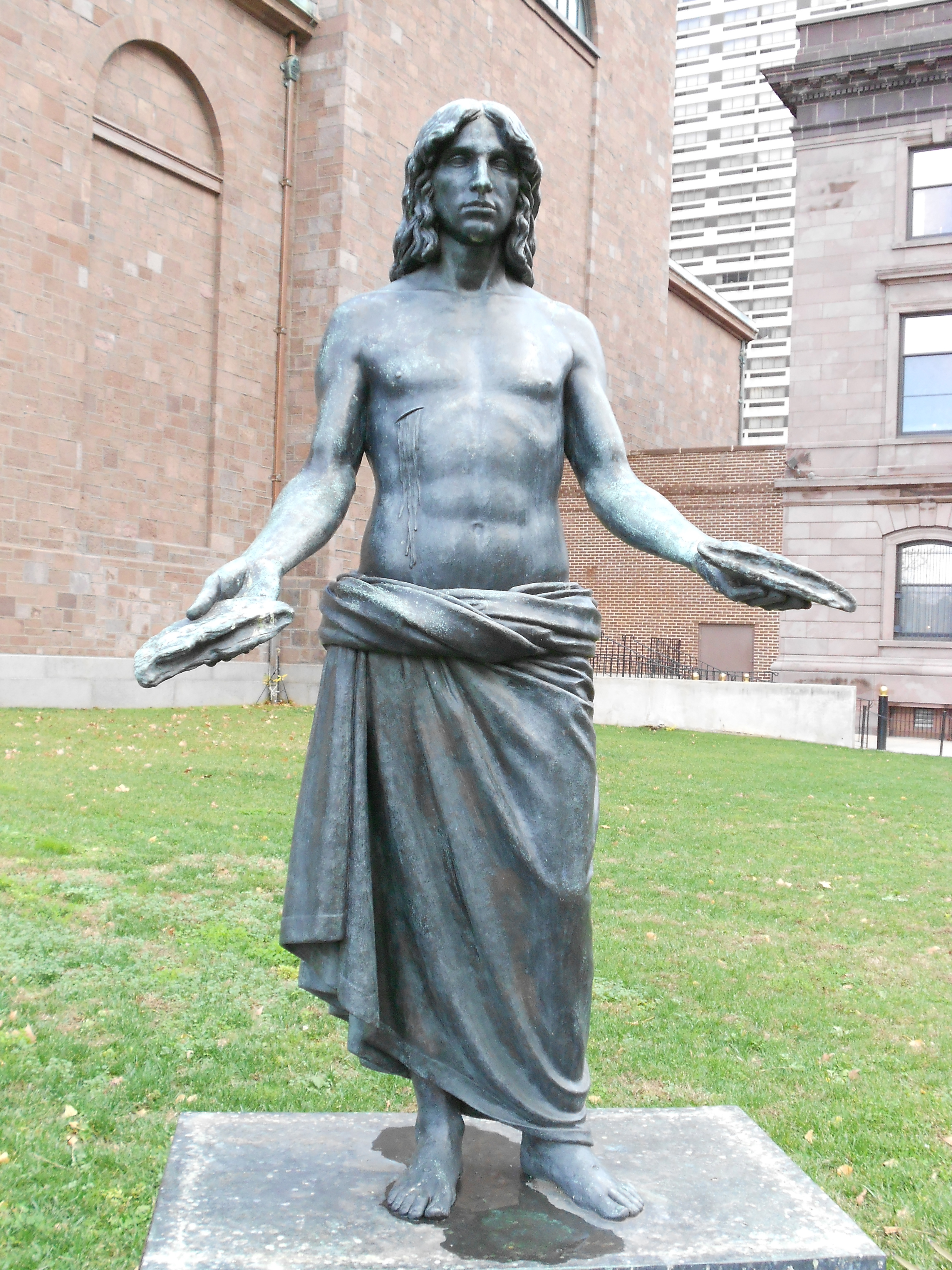 Please withdraw - copyrighted